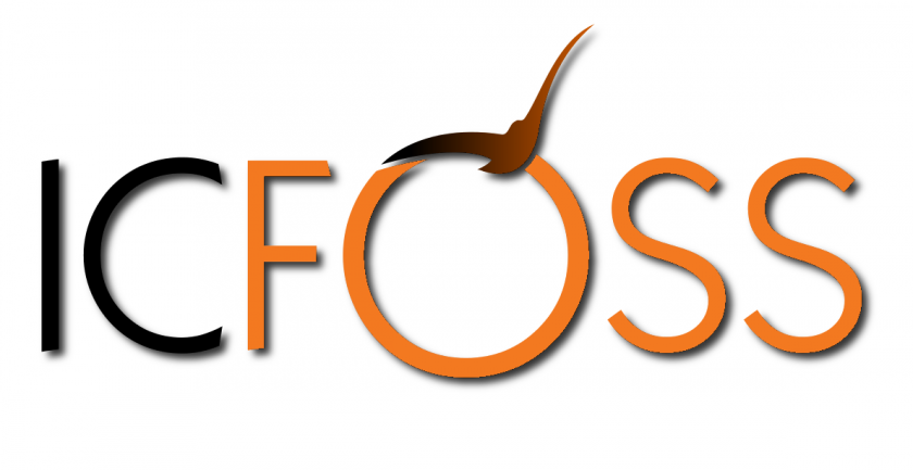 Logo of ICFOSS (International Centre for Free and Open Source Software)